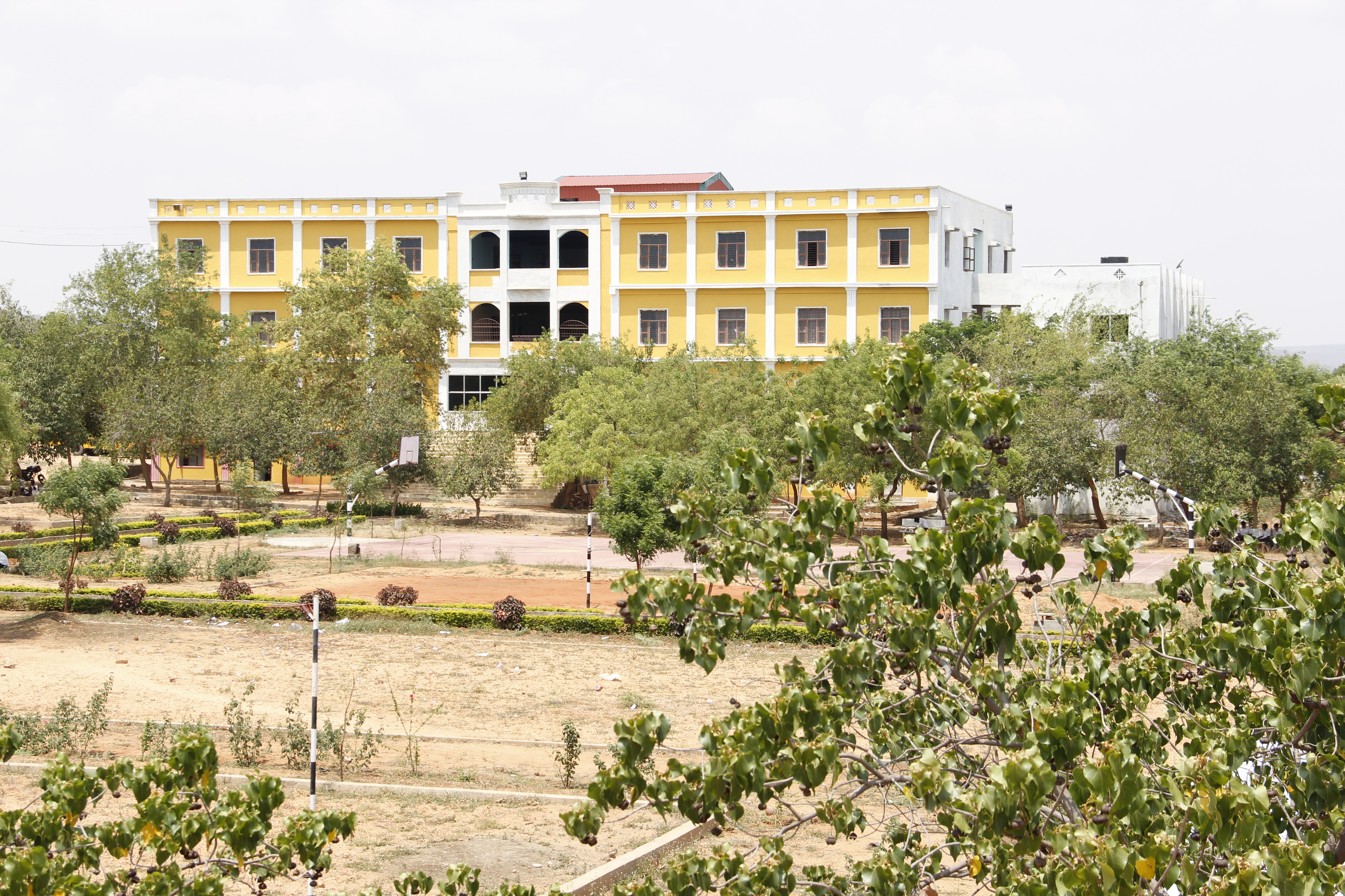 NEWTON'S INSTITUTE OF SCIENCE&TECHNOLOGY(NIST) MACHERLA